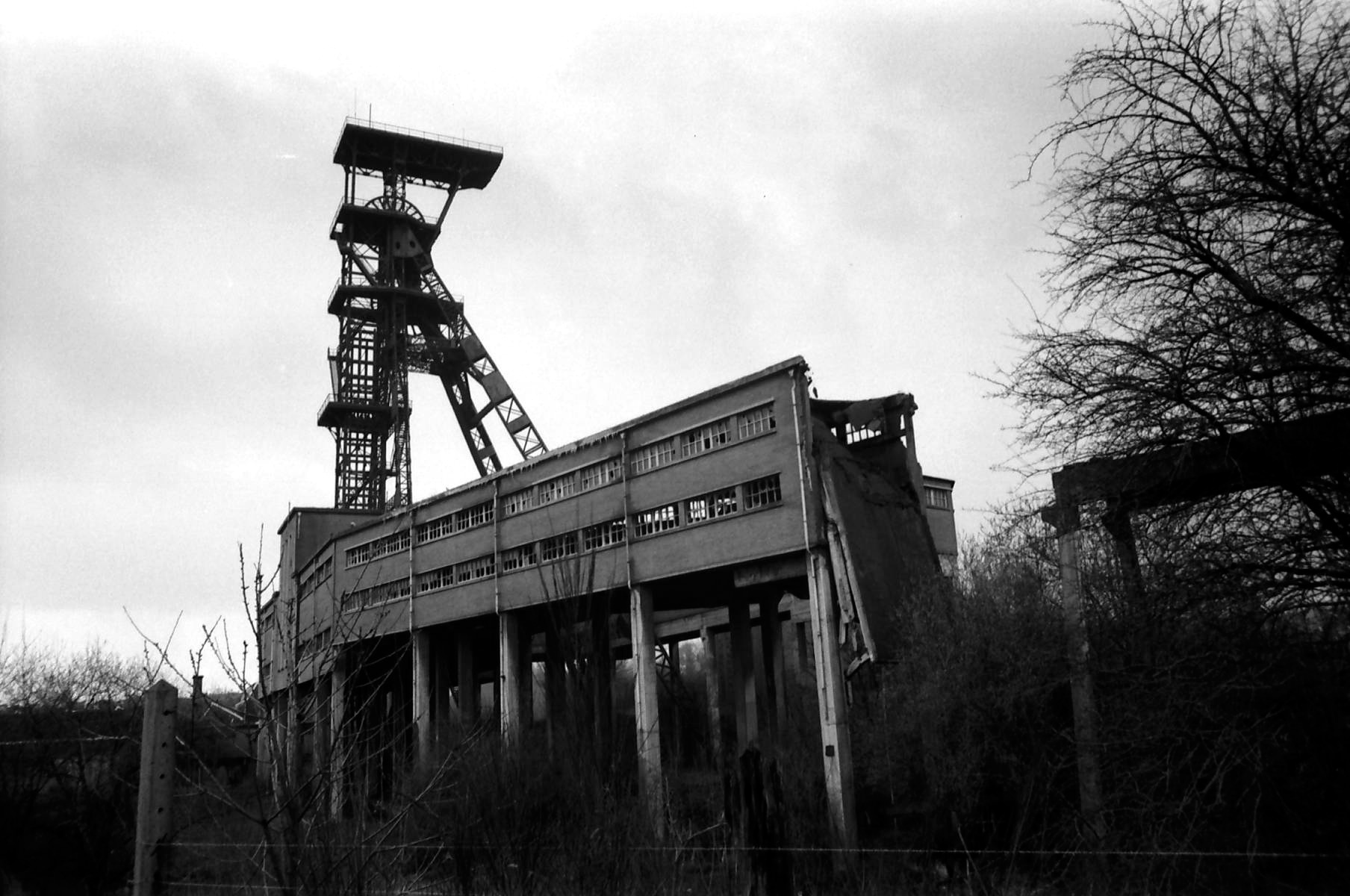 Mine of Crachet Pickery before restoration (Belgium)